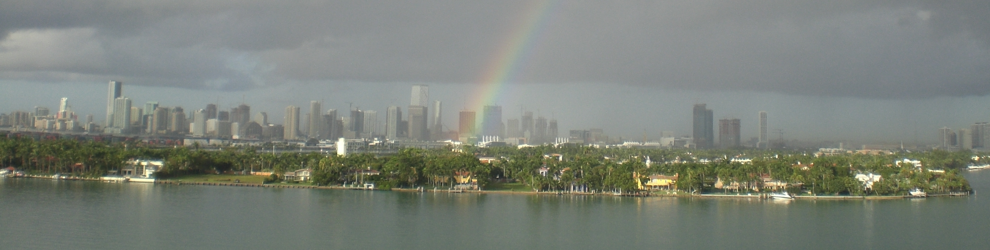 Digital photo taken by Marc Averette. View of Star Island from Miami Beach. 1/16/07.